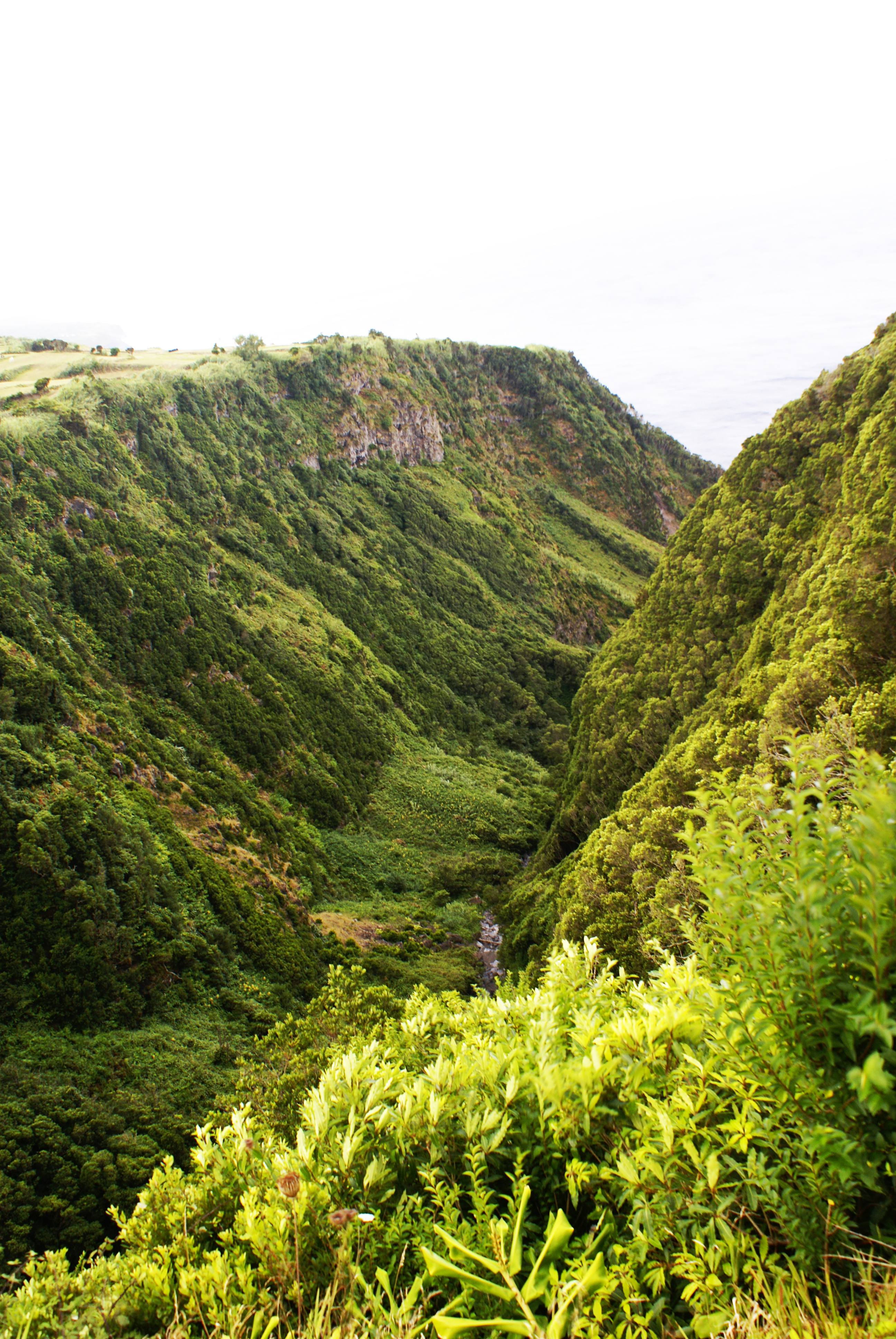 Miradouro da Ribeira Funda, Vistas, Vale da Ribeira, Ribeira Funda, Cedros, concelho da Horta, ilha do Faial, Açores, Portugal